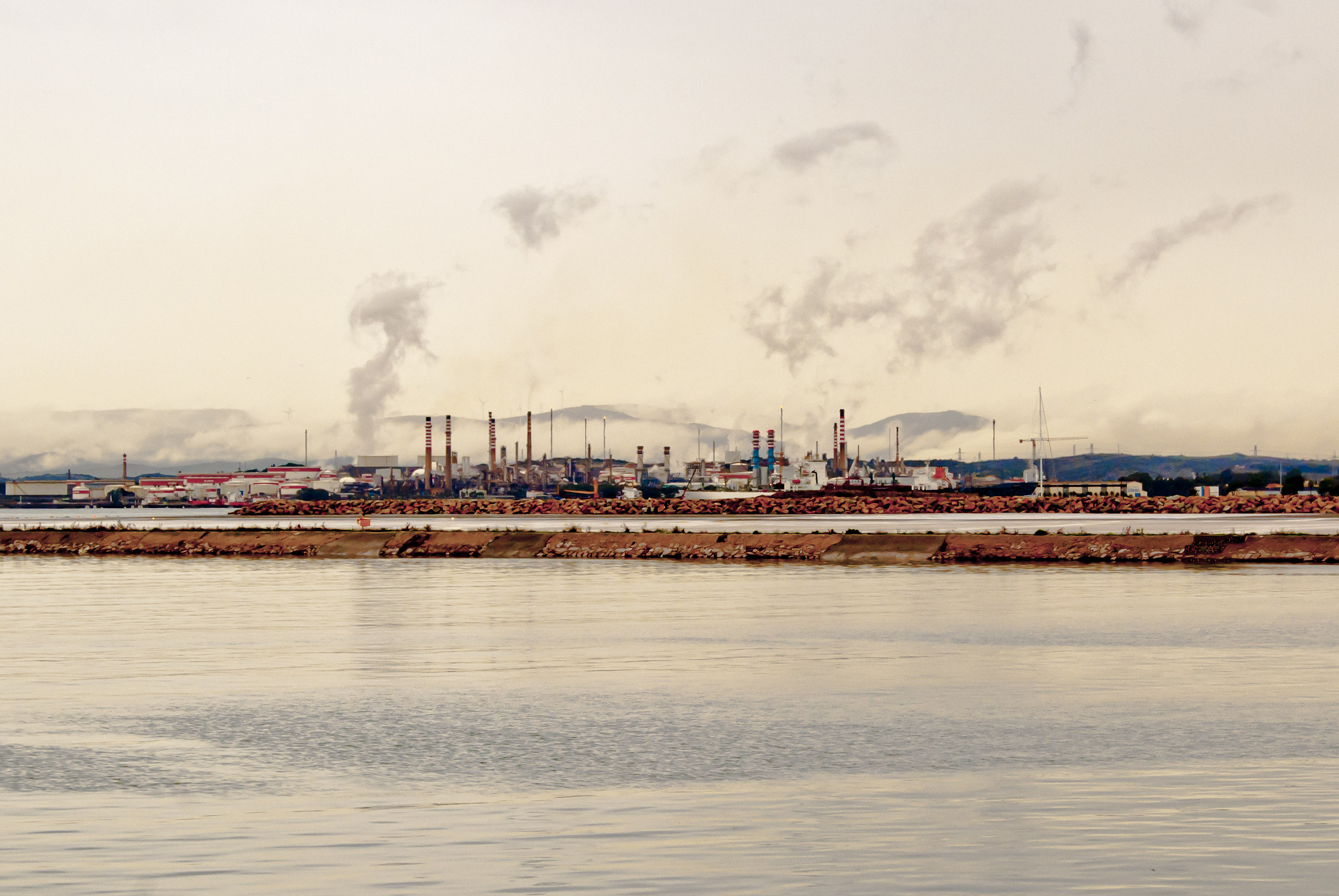 Gibraltar-San Roque oil refinery as seen from Gibraltar